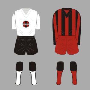 The home and away kits of football club Sportclub Plovdiv for season 1940-41